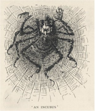 Picture of Svengali from George du Maurier's 1894 novel Trilby, showing Svengali as a spider